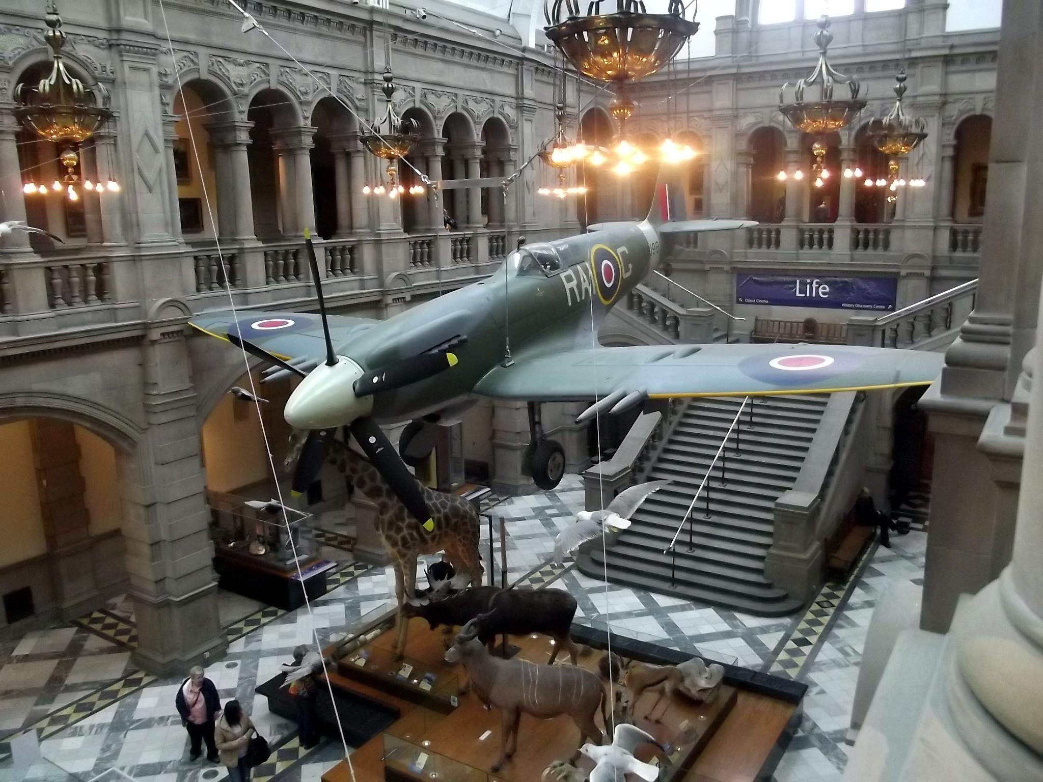 Kelvingrove Museum, Glasgow, Scotland, Glasgow.